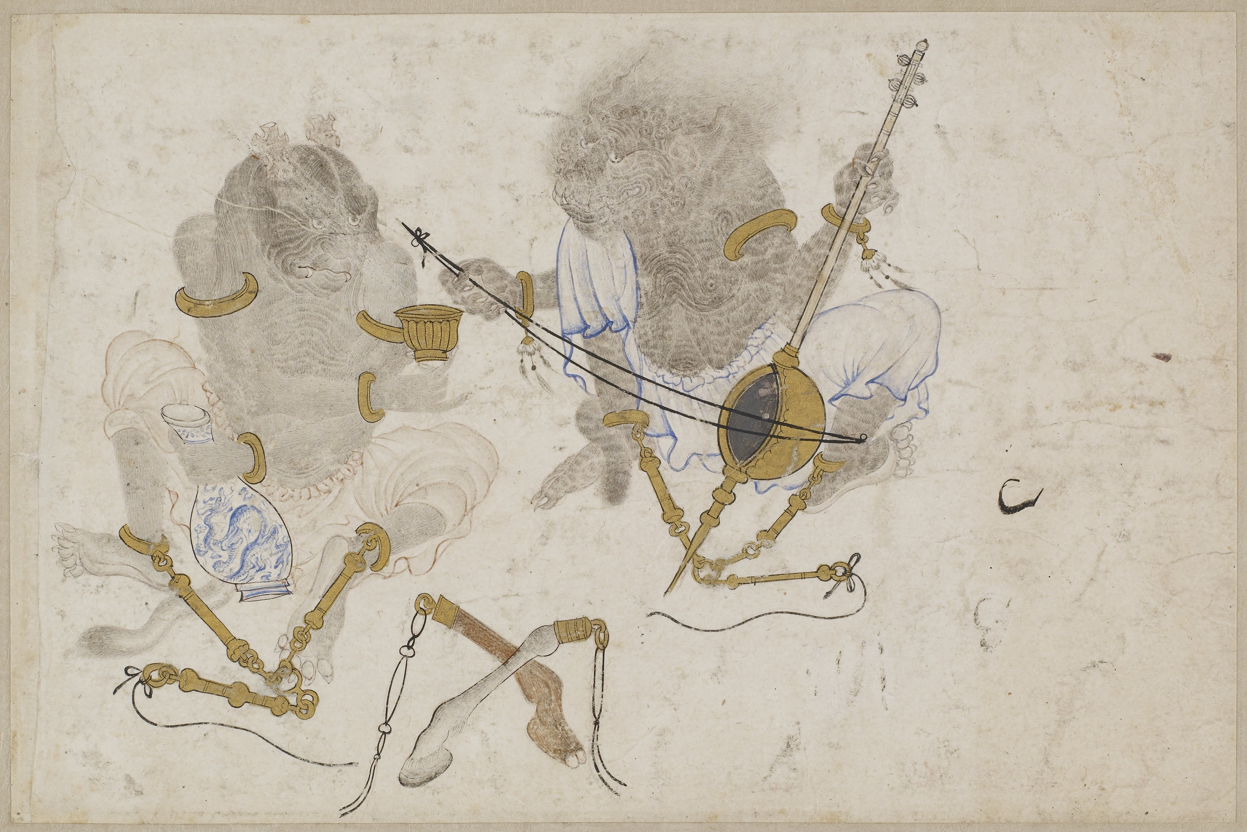 Timurid period, from Iran or Central Asia